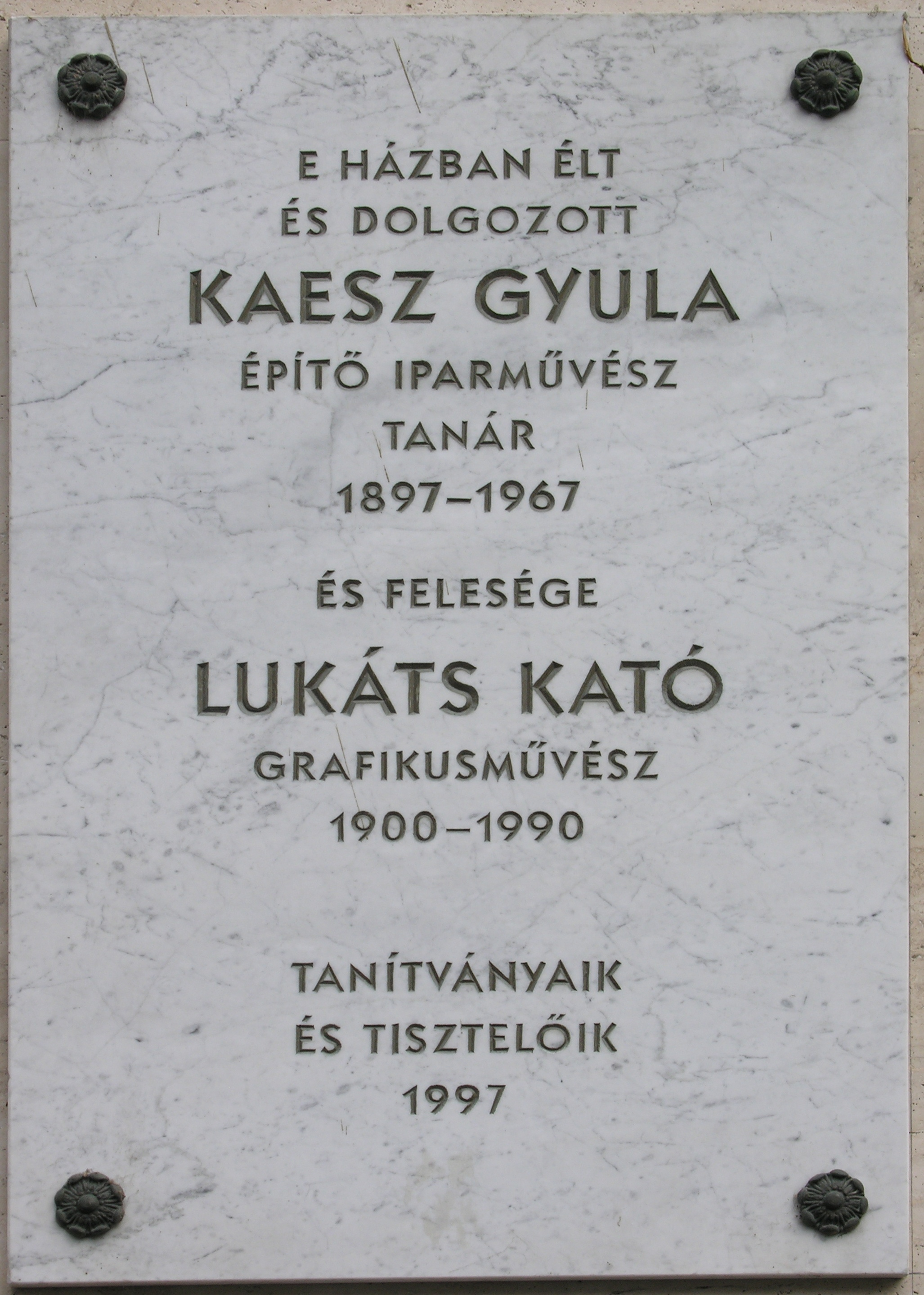 Commemorative plaque of Gyula Kaesz and Kató Lukáts in Budapest V, Petőfi tér No 3-5